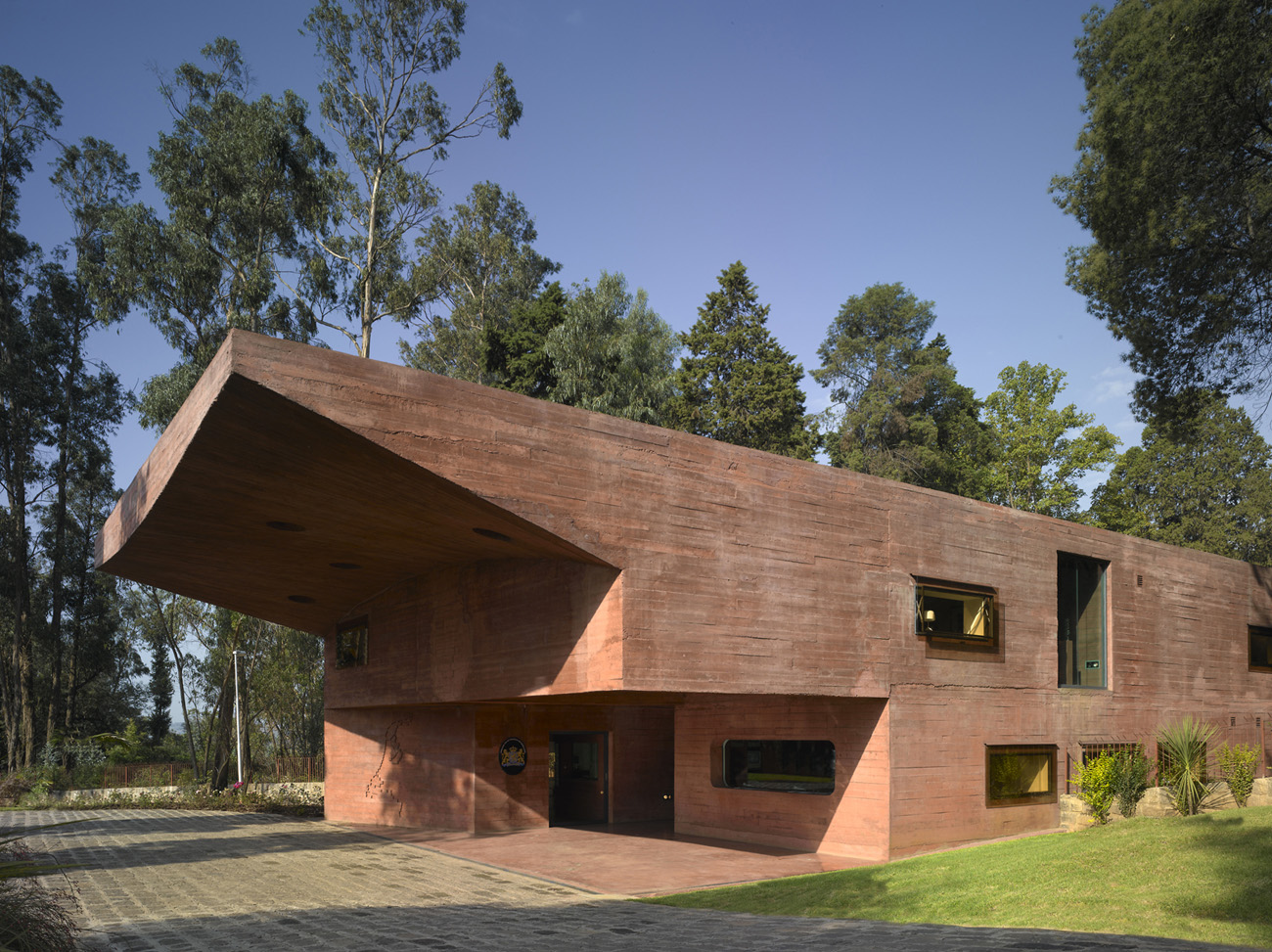 Ethiopia Dutch Embassy in Addis Abeba